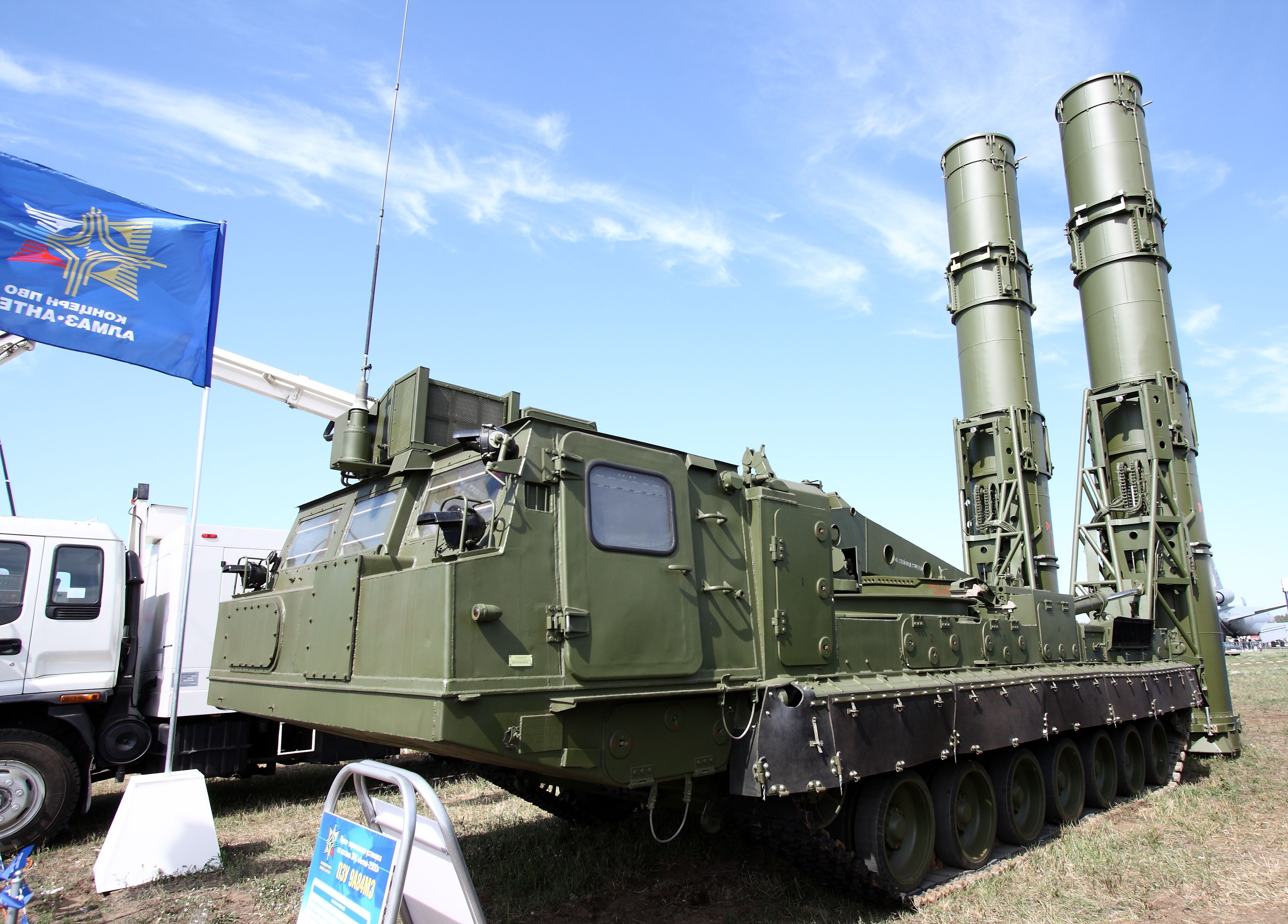 9A84ME from S-300V (The international aerospace salon MAKS-2011)